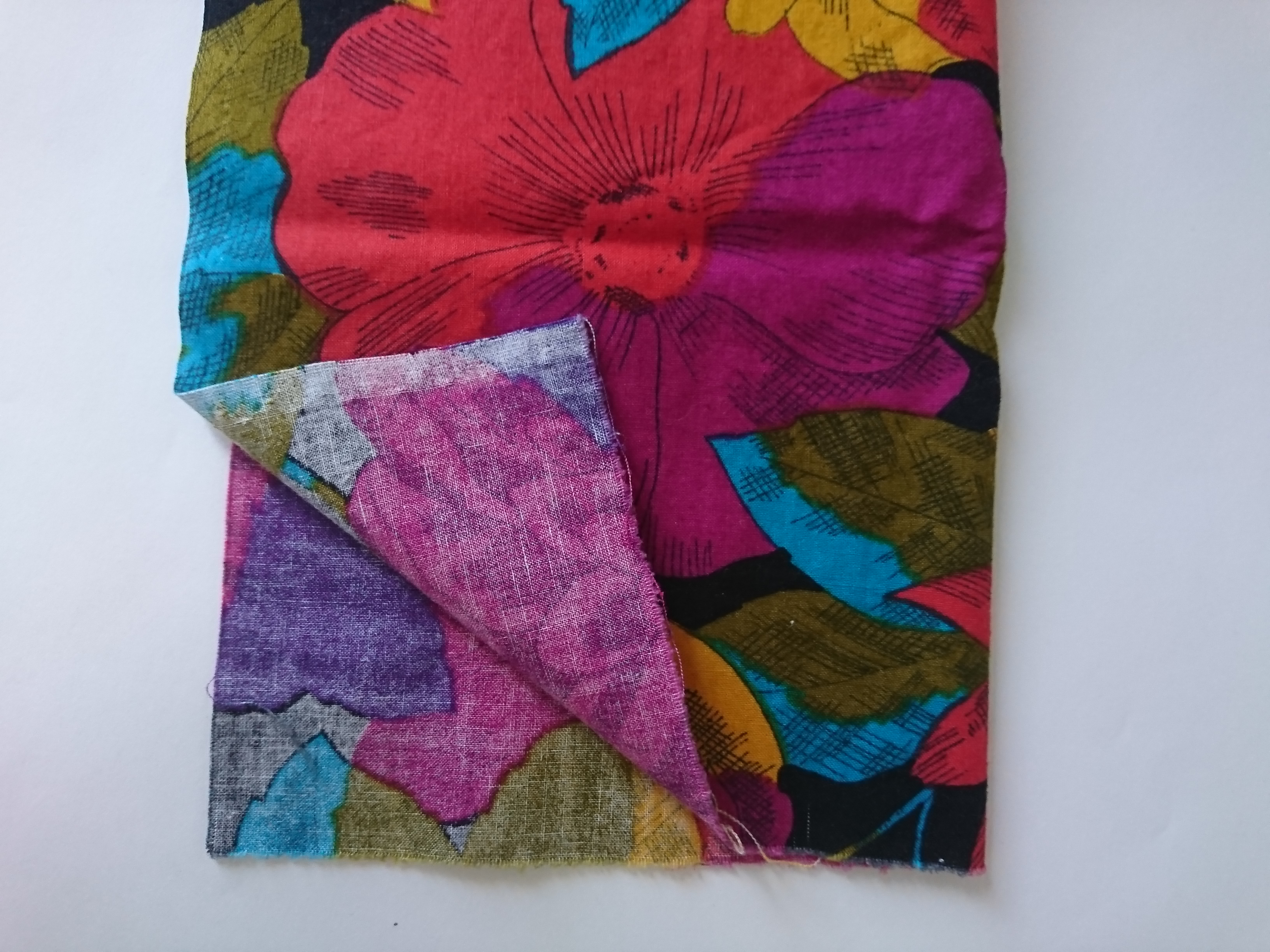 A colorful fabric showing the differences between the "right" side and the "wrong" side of a fabric. It is important to know the difference when sewing since many instructions include putting two pieces of fabric "right" or wrong side together.